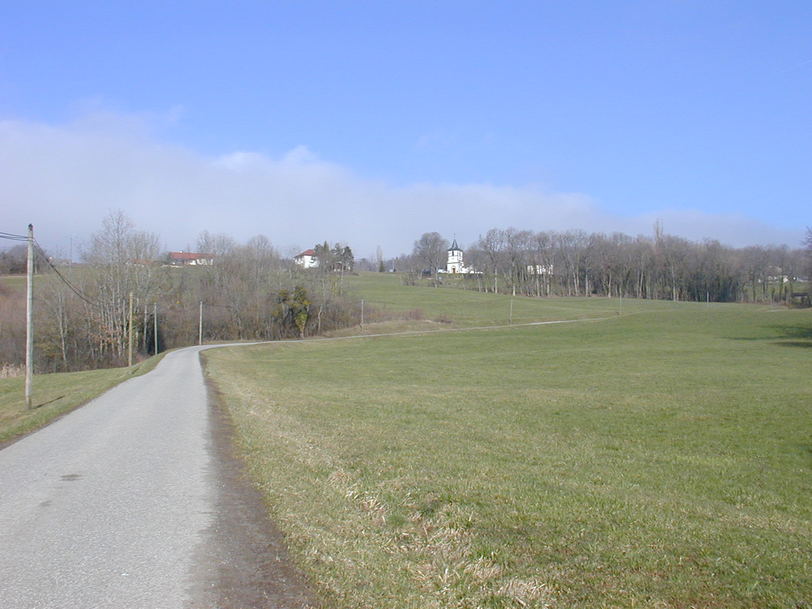 Village of Chavannaz, Haute-Savoie, France.